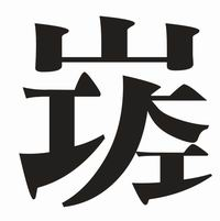 An example of Xu Bing's 'Square Word' calligraphy, combining Latin characters into forms that resemble Chinese characters. The word is 'wiki'.